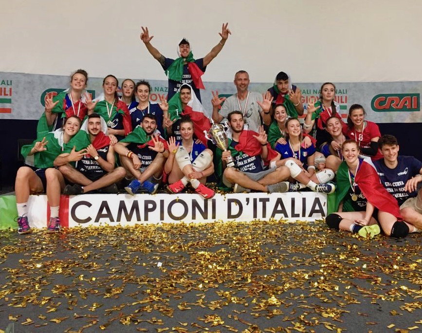 Italian Champions Under 18